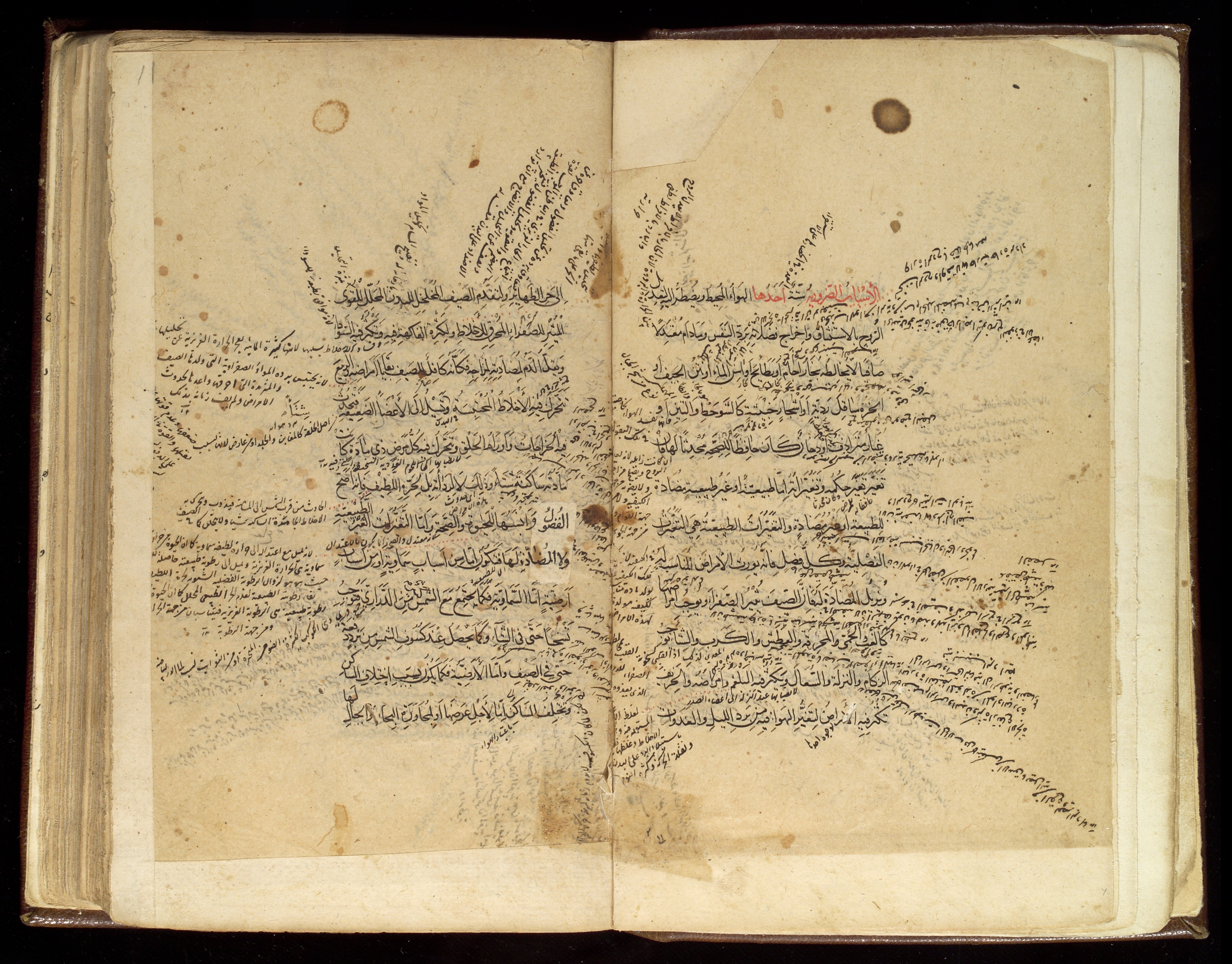 Double page from Mugiz al-Qanun, an Arabic medical text concerning a commentary on Ibn Sinia'sal-Qanun Asian Collection Keywords: Arabic